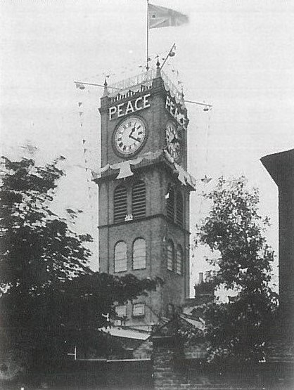 Clocktower of Gillett & Johnston bell foundry, Union Road, Croydon, England, decorated for peace celebrations at the end of the First World War, c1919